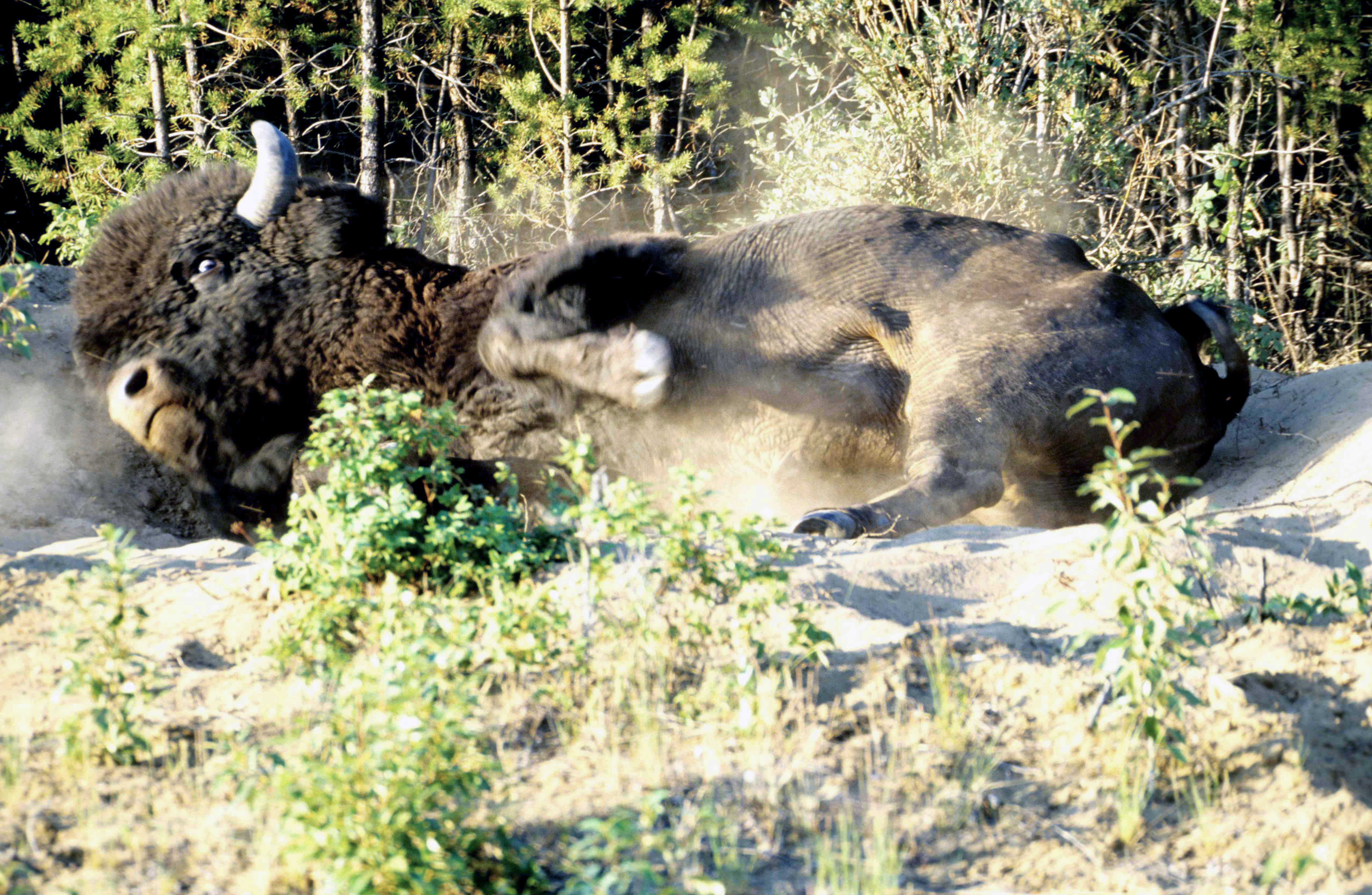 Wood Buffalo (Bison bison athabascae) in Wood Buffalo National Park, Canada